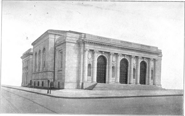 Dedication of the New Synagogue Mikve Israel (September 14, 1909)